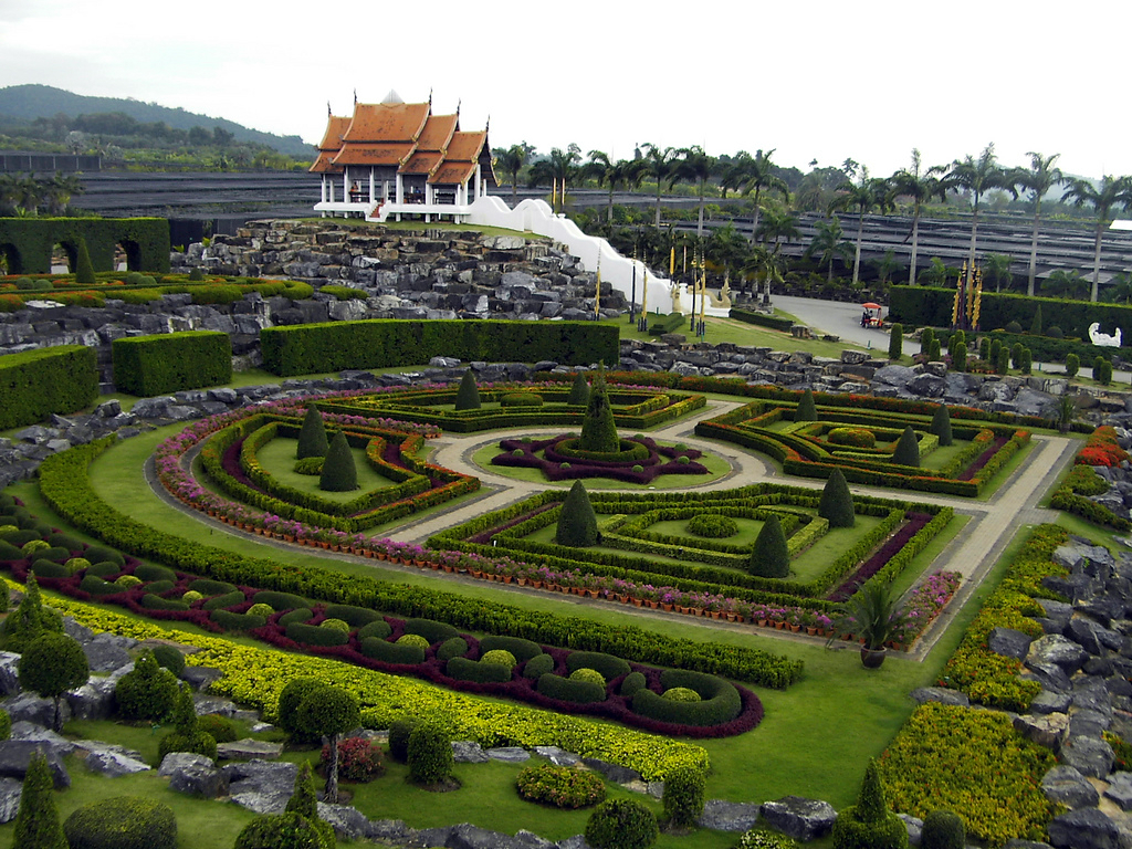 Nong Nooch Tropical Botanical Garden Chonburi Province, Thailand.